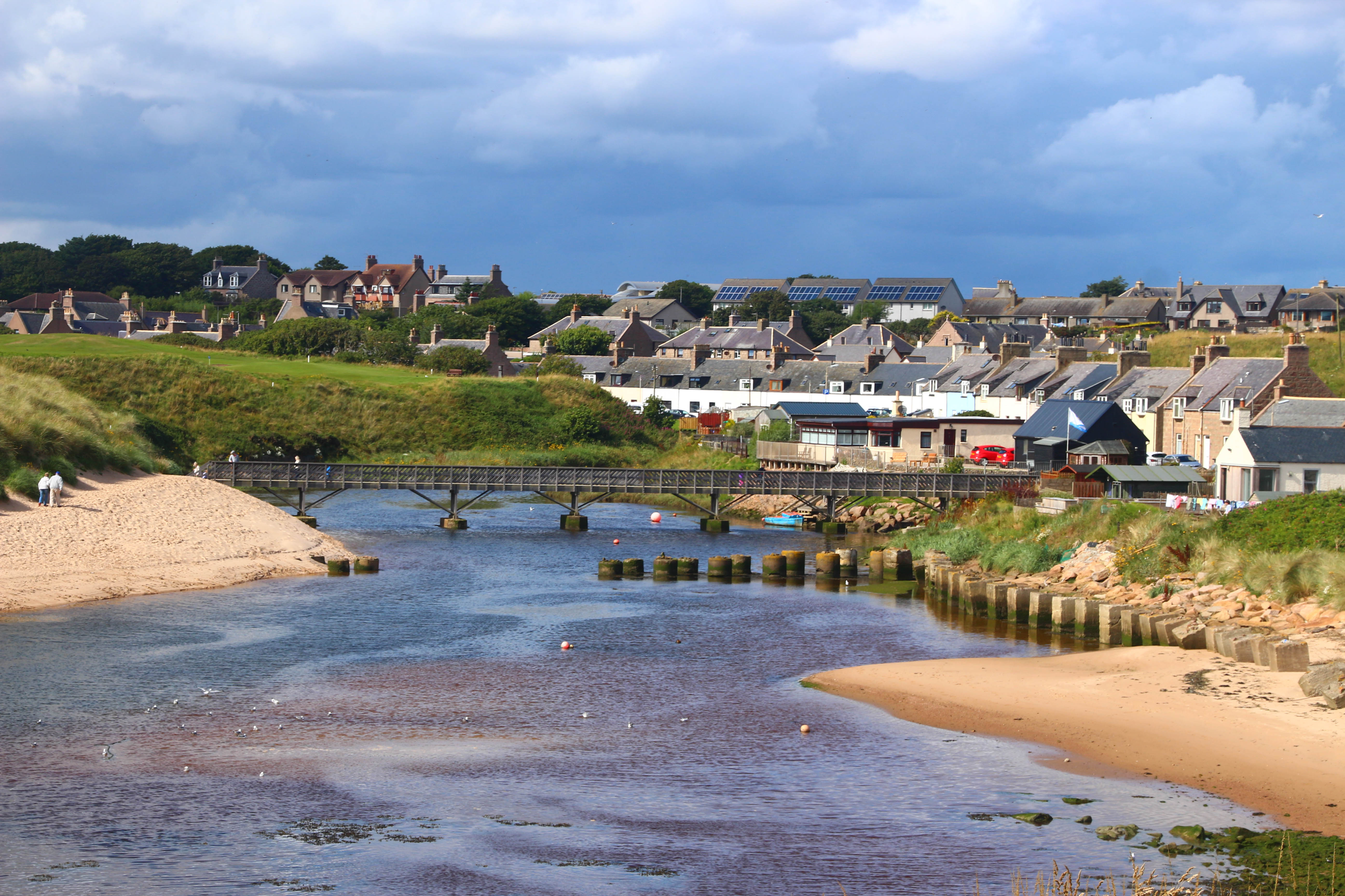 View of Cruden Bay from the estuary.